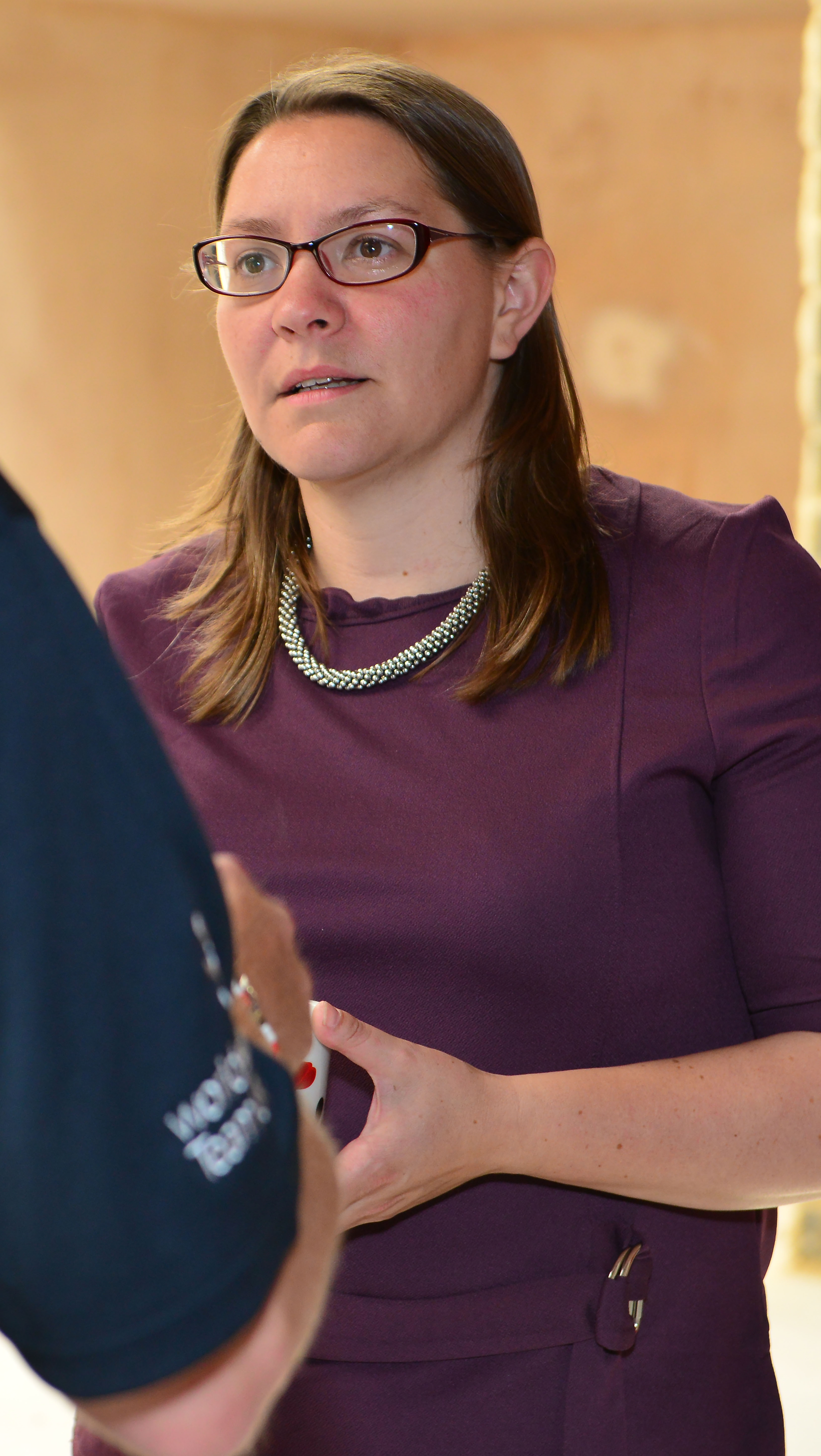 Anna Turley